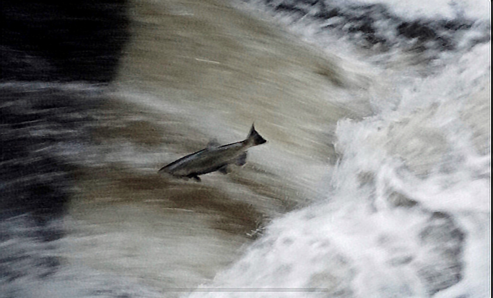 Chinook salmon leaping passage barrier on Los Gatos Creek, tributary to the Guadalupe River, Santa Clara County, California.